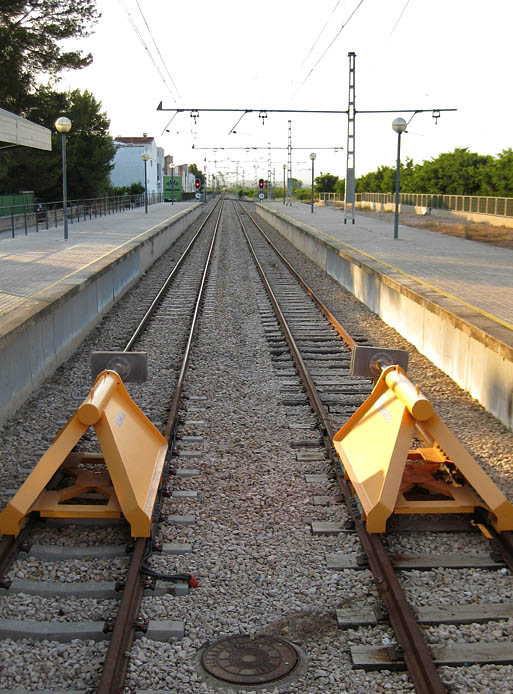 Metro station and terminus at Castelló de la Ribera / Villanueva de Castellón, Valencian Country, Spain